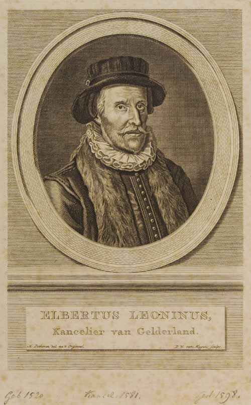 Elbertus Leoninus was the Latinized name of Elbert de Leeuw (Zaltbommel, 1519 or 1520 – Arnhem, 16 December 1598[1]), Dutch jurist and statesman, who helped negotiate the Pacification of Ghent.